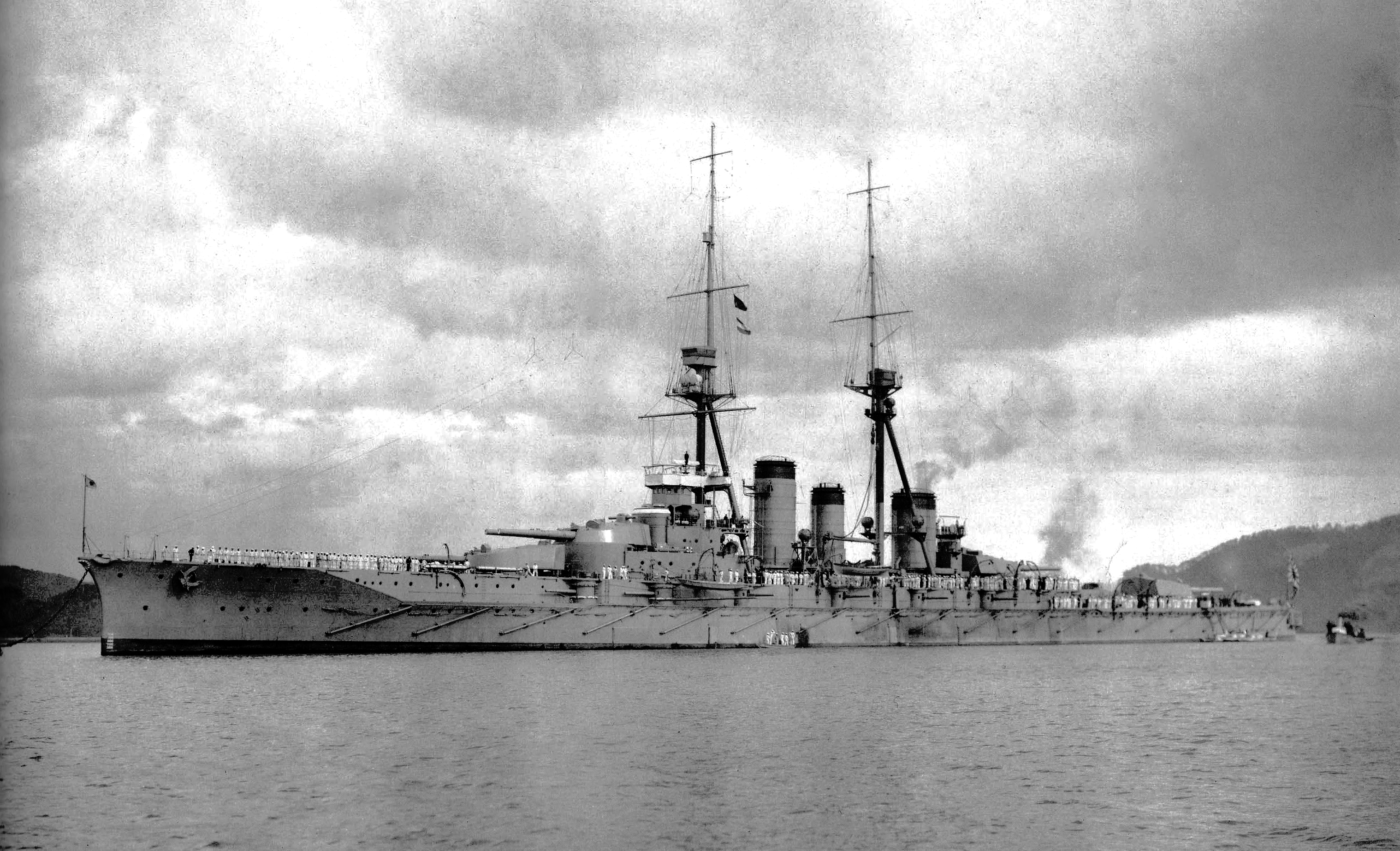 Imperial Japanese Navy battlecruiser Kirishima at Sasebo, Japan.